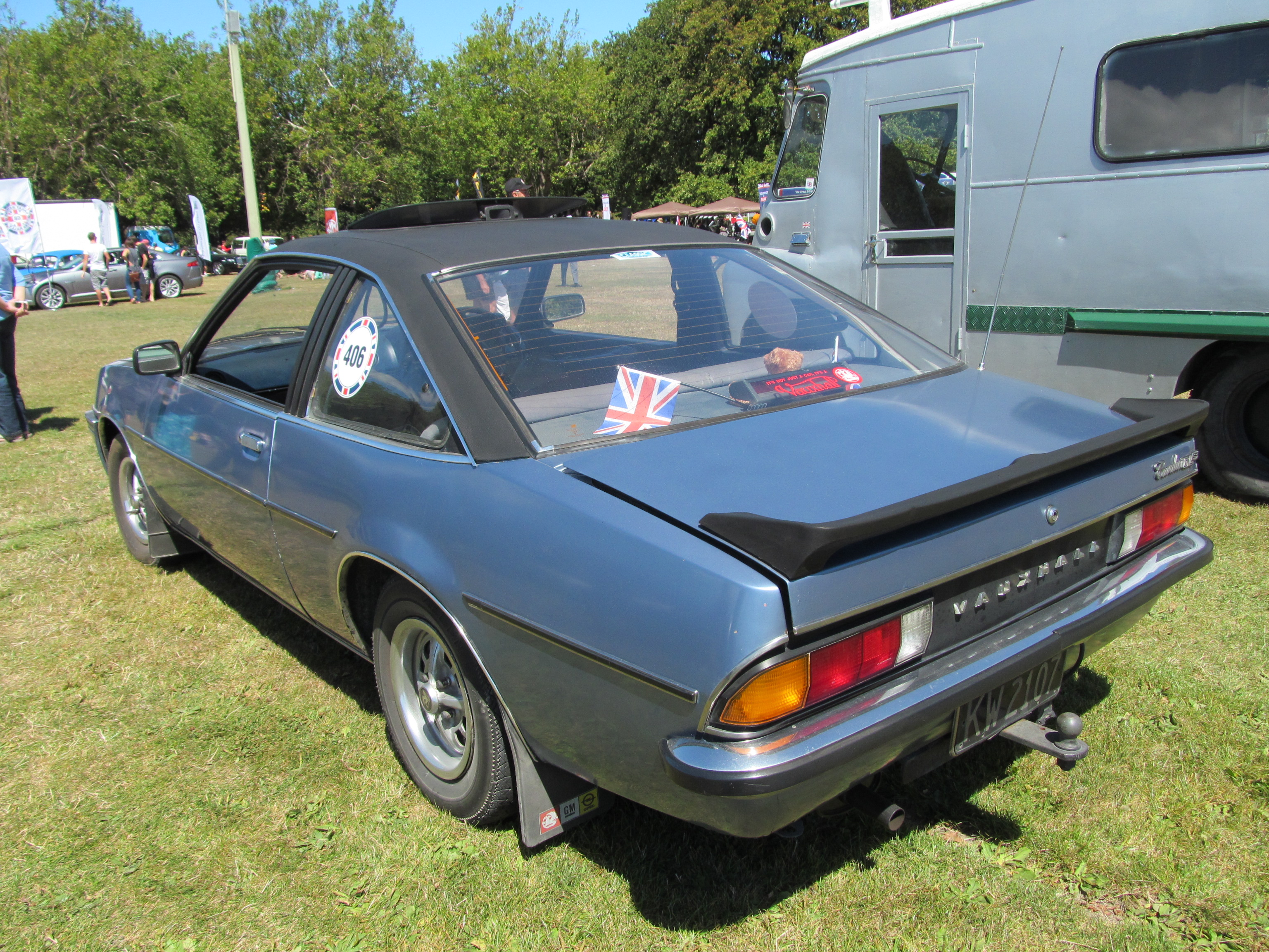 KW2107 I was going to wait a bit longer before uploading this, but as it's one of only two in the country (according to the owner) I thought it deserved to be shown today! Apparently it was in a nasty accident here after arriving in 1982, and the first NZ owner imported replacement panels from the UK for it. And yes eagle-eyed spotters, those are Opel Manta rear lights, but as this is practically a Manta I think they'll be OK...